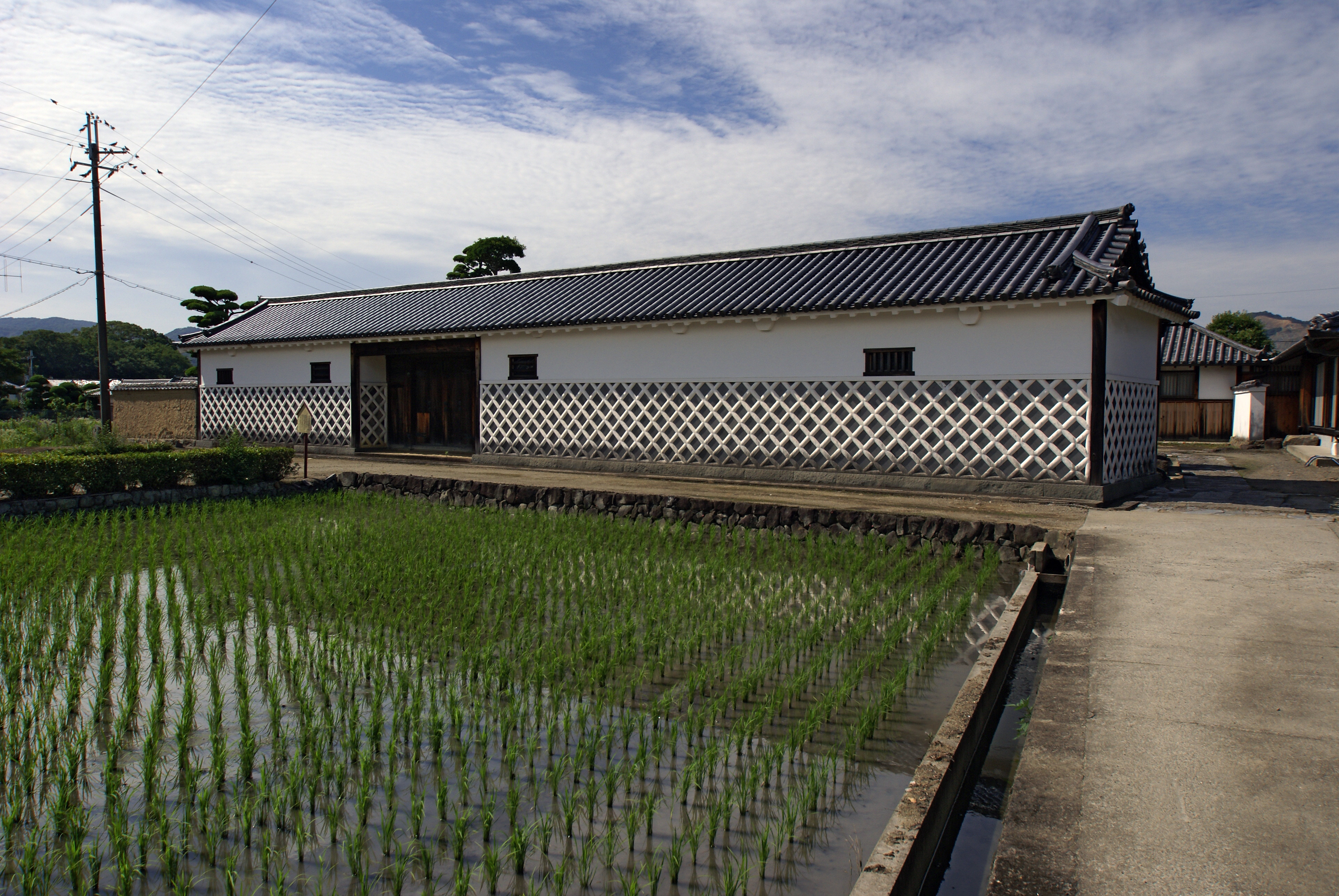 Masuda house in Iwade, Wakayama prefecture, Japan